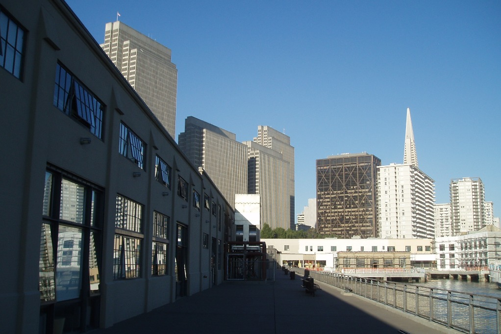 Pier 1, Central Embarcadero Piers Historic District, San Francisco, California, USA, with downtown San Francisco in the background (including the Transamerica Pyramid, right).